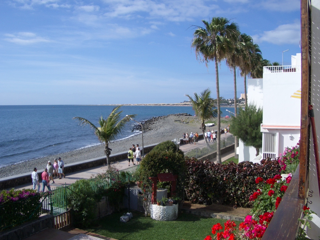 Apartments in El Veril Beach, near of Playa del Inglés (Gran Canaria) Canary Islands, Spain.